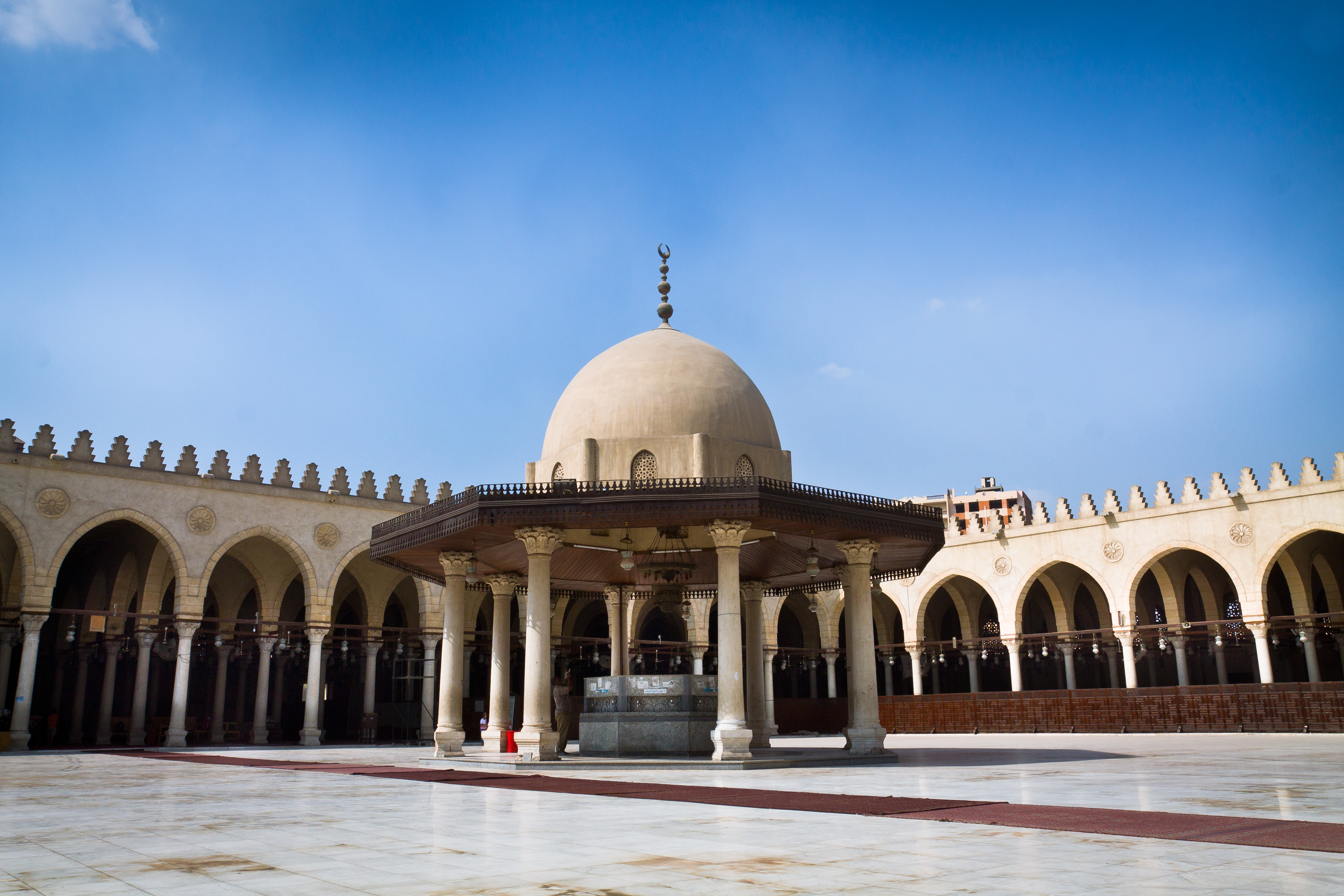 The Mosque of Amr ibn al-As (Arabic: جامع عمرو بن العاص), also called the Mosque of Amr, was originally built in 642 AD, as the center of the newly founded capital of Egypt, Fustat. The original structure was the first mosque ever built in Egypt, and by extension, the first mosque on the continent of Africa.[1][2] The location for the mosque was the site of the tent of the commander of the conquering army, general Amr ibn al-As. One corner of the mosque contains the tomb of his son, 'Abd Allah ibn 'Amr ibn al-'As. Due to extensive reconstruction over the centuries, nothing of the original building remains, but the rebuilt Mosque is a prominent landmark, and can be seen in what today is known as "Old Cairo". It is an active mosque with a devout congregation, and when prayers are not taking place, it is also open to visitors and tourists